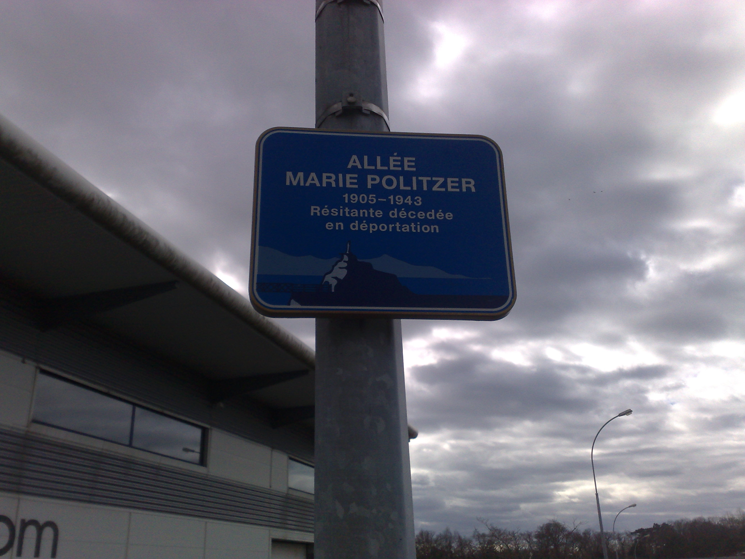 Marie Politzer street, Maisonava industrial area, Biarritz, Lapurdi-Labourd, Basque Country.